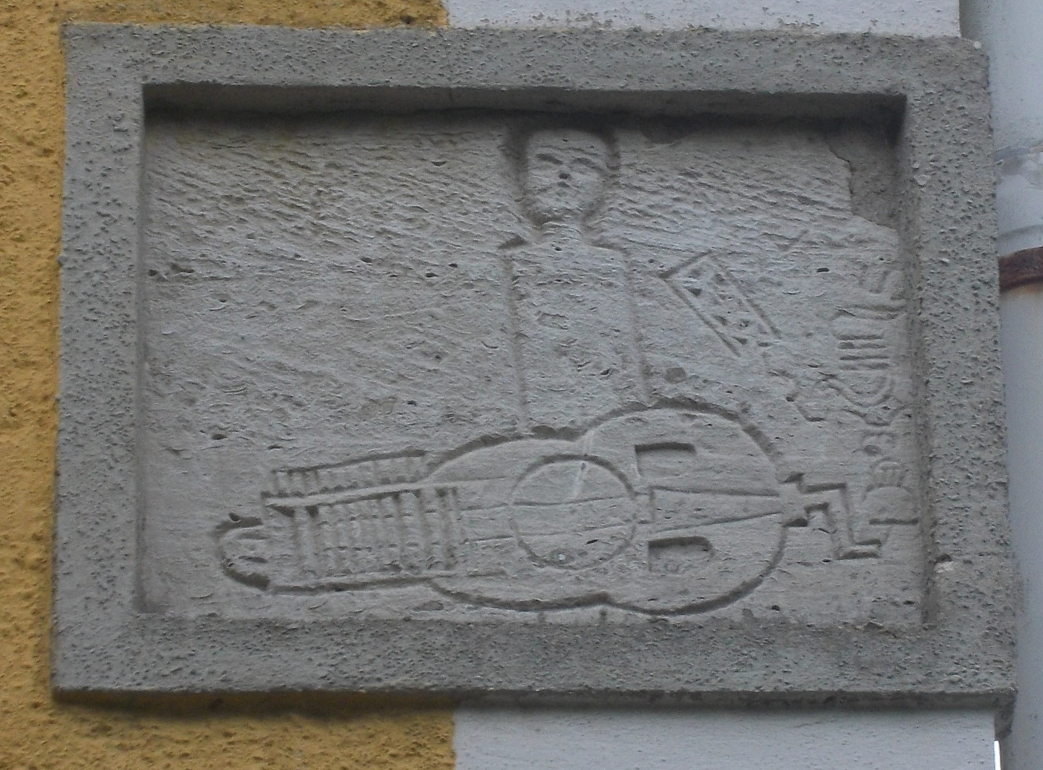 Romanesque relief stone on the wall of Schkölen church (district: Saale-Holzland-Kreis, Thuringia), representing a hurdy gurdy player